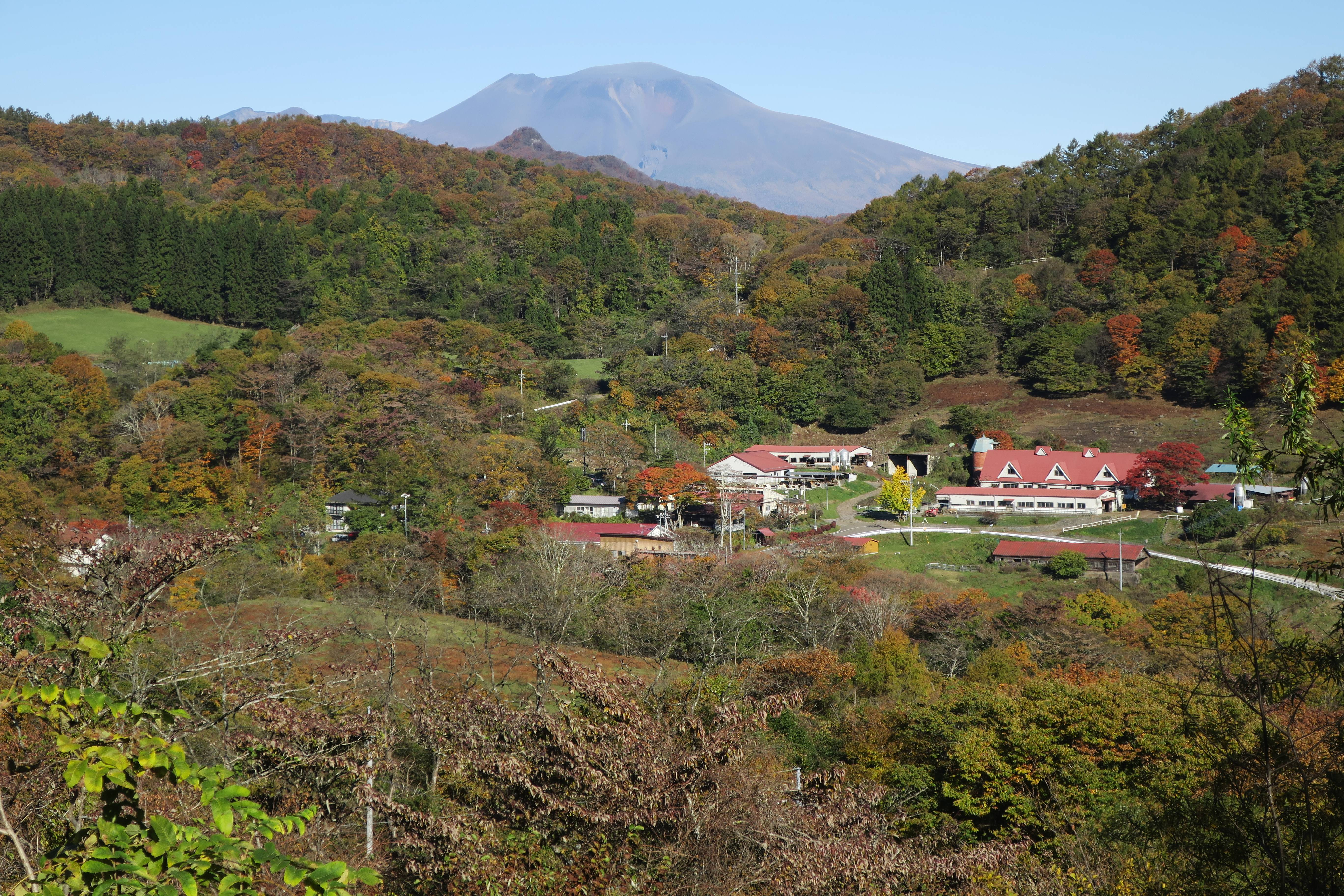 Kouzu Dairy Farm (Shimonita, Gunma).